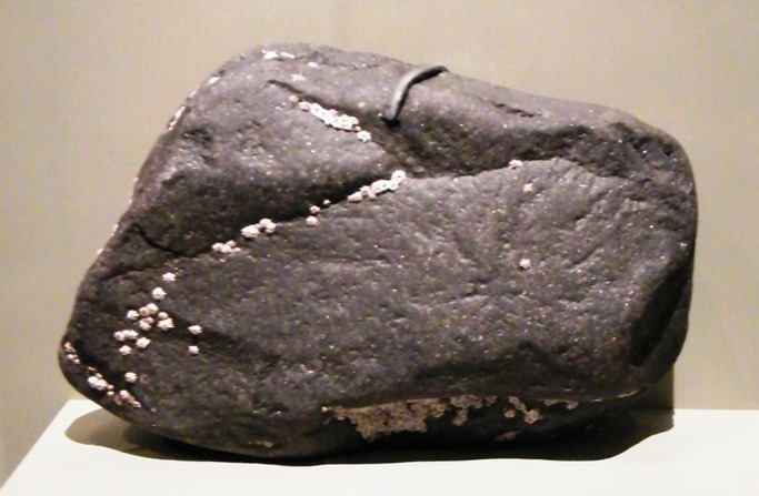 Gorée Island Rock, a gift from sculptor Ed Dwight to his friends, Bernard and Shirley Kinsey. The Kinseys donated the rock to the National Museum of American History. The rock comes from Gorée Island, Senegal. On this island stood the Slave House, where white slavers processed kidnapped Africans for transport overseas into slavery (largely in the United States and Caribbean).